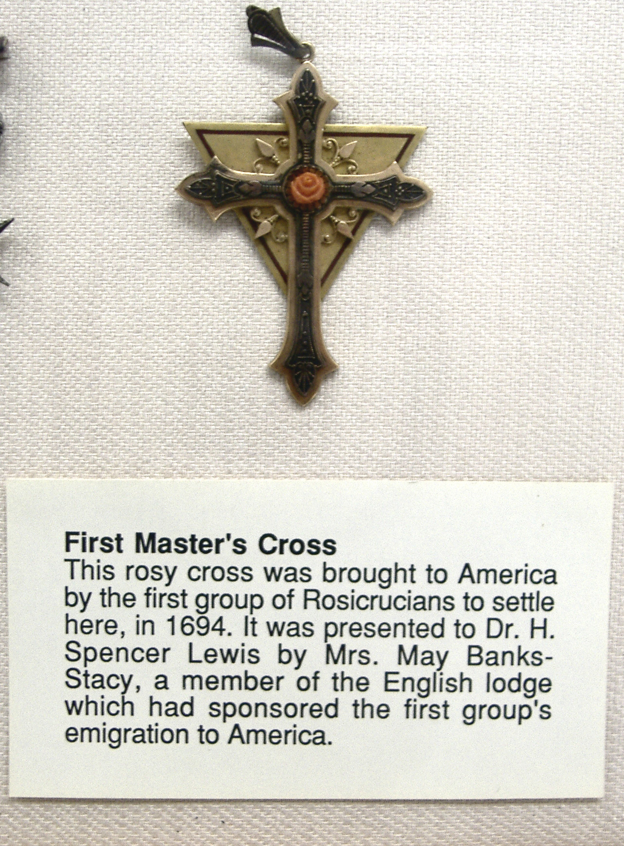 I (Zarathustra) took this picture in the Rosicrucian Library at Rosicrucian Park, San Jose, California. The image was taken on 9/20/2005. The subject in the image is described on the placard below the cross in the display case.